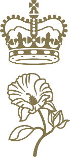 Crest of Administrator of the Northern Territory